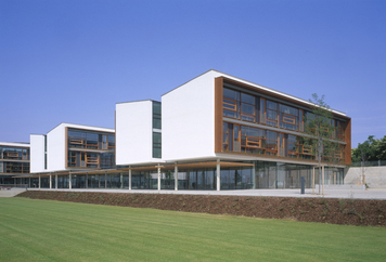 Realschule Hoechstadt